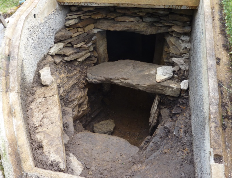 Taversöe Tuick Chambered Cairn, Rousay, Orkney, Scotland. Entrance to the little tomb.